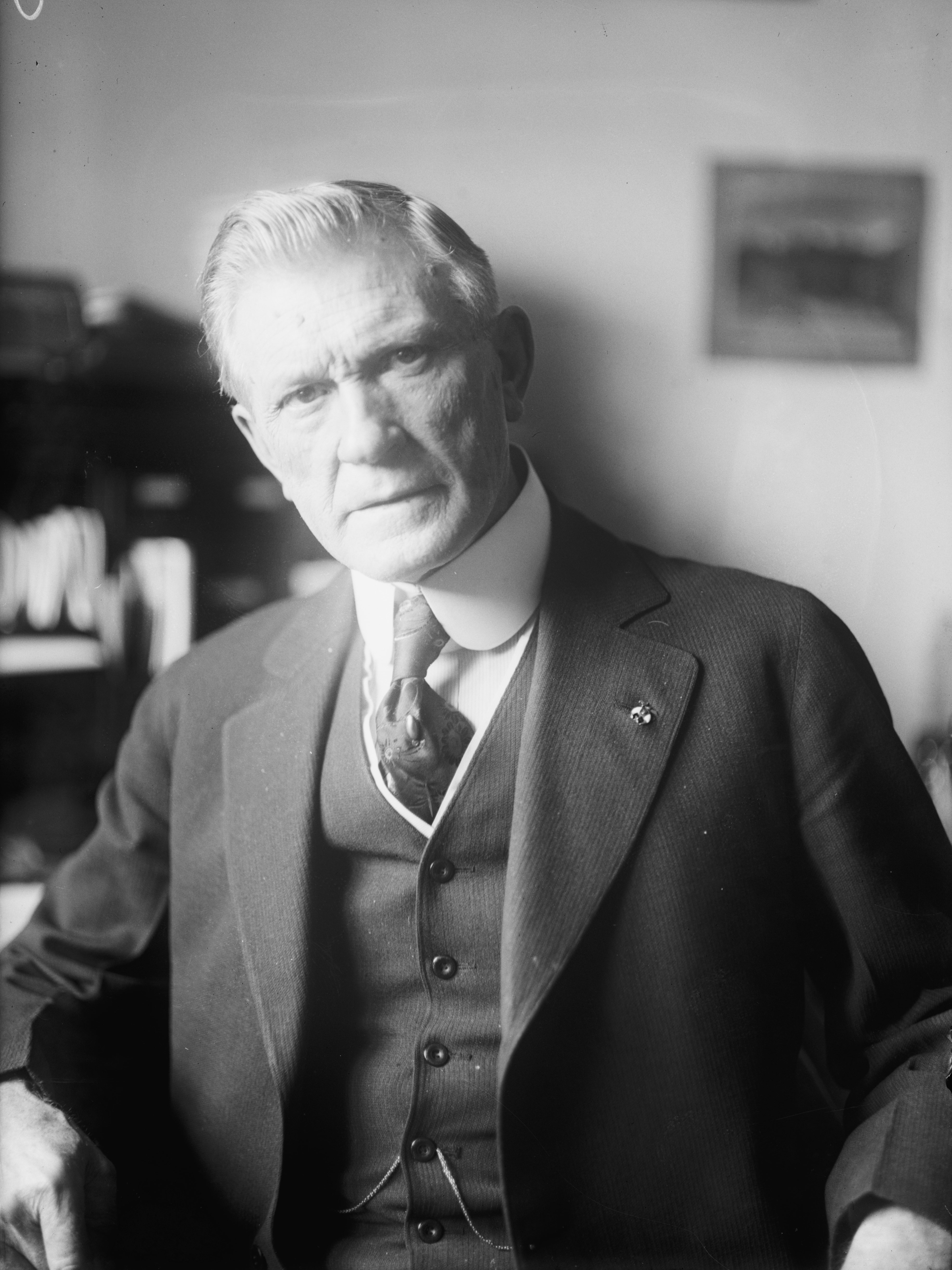 Title: Chas. B. Timberlake, Colorado Abstract/medium: 1 negative : glass ; 5 x 7 in. or smaller